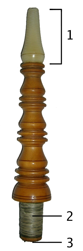 Asturian pipe blowstick (morphology)